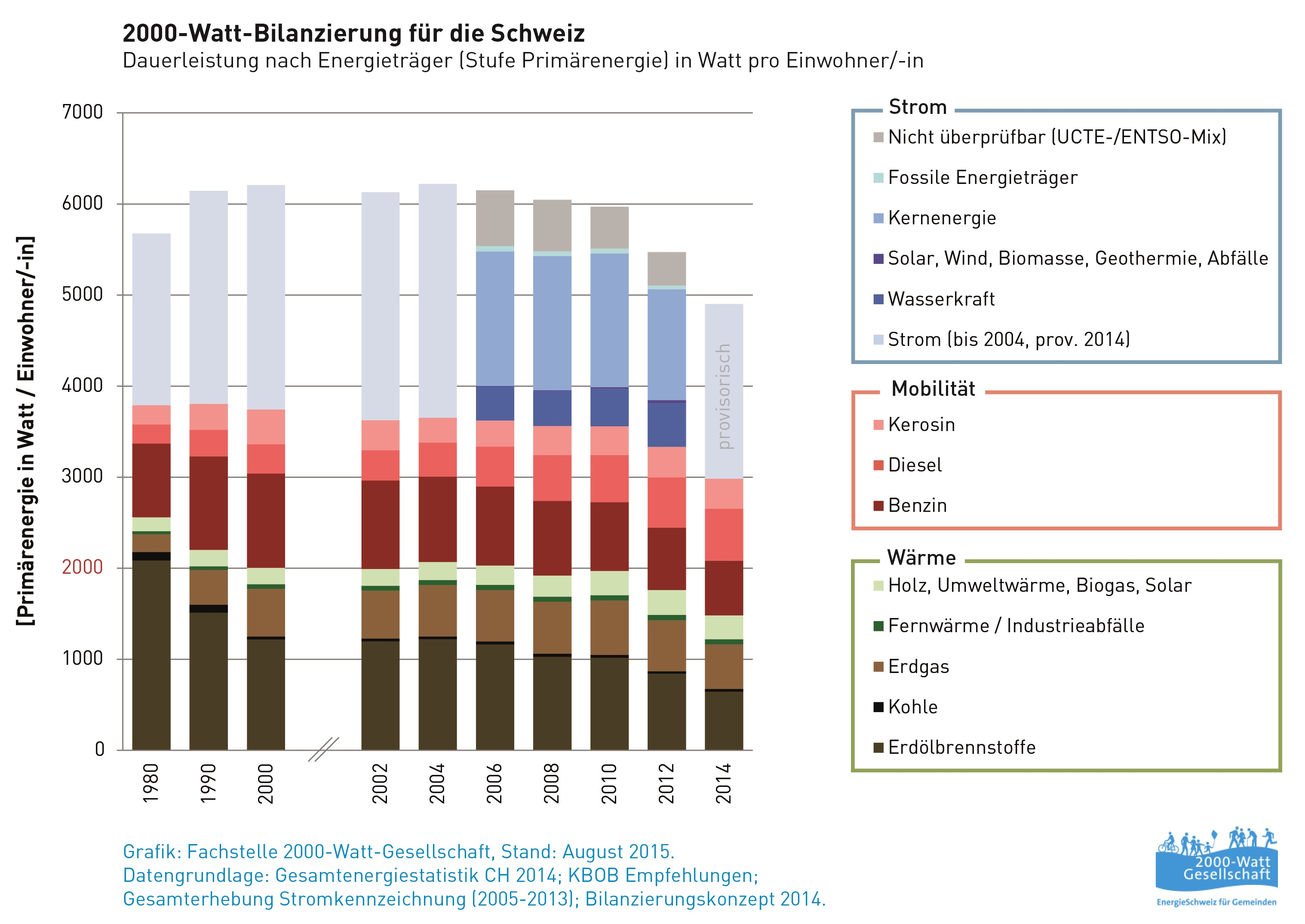 Balance of the primary energy consumed in Switzerland, expressed in watts per inhabitant, broken down by energy source, from 1980 onwards.